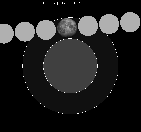 September 1959 lunar eclipse chart of moon's path through the earth's shadow. thumb